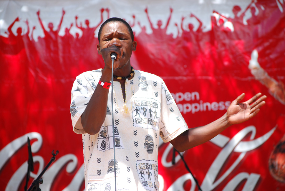 Mokoomba lead vocalist Mathias Muzaza making their debut performance at Harare International Festival of the Arts 2011 on the Coca Cola Stage.